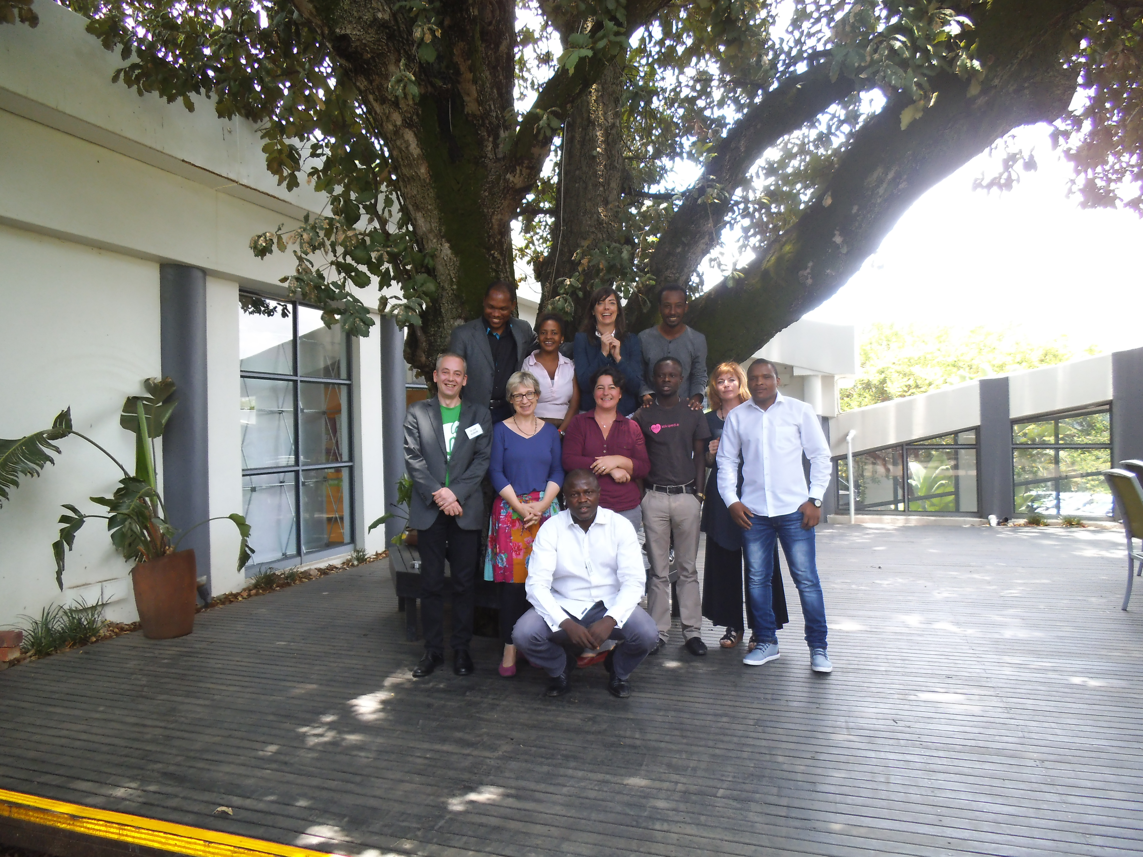 OpenAfrica15, inner courtyard of the Goethe-Institute Johannesburg on the 4th of December, 2015.